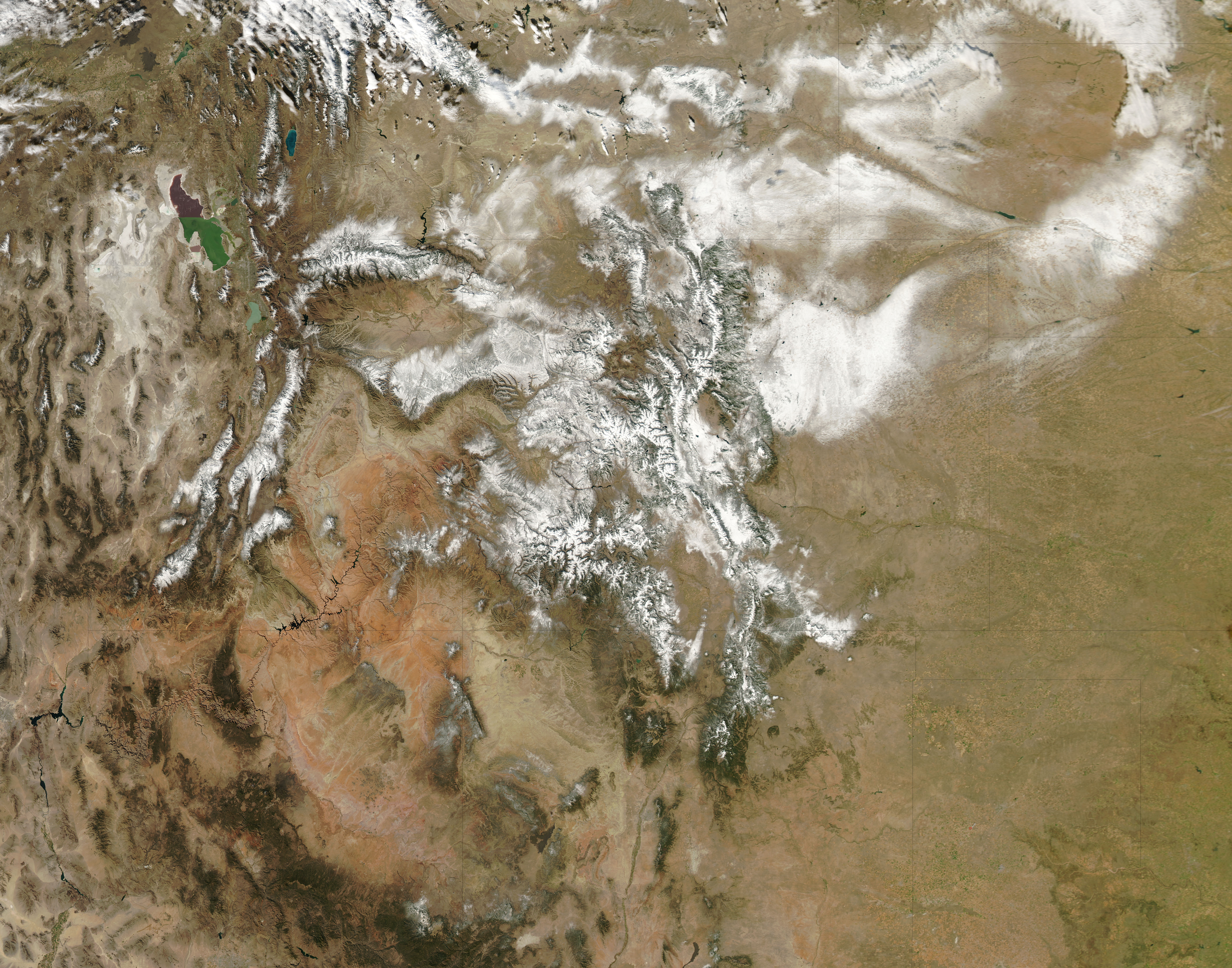 Snow highlights the rugged mountains as well as the urban and agricultural landscapes of the plains. During this event, winds were predominantly from the north. Air moving southward from the Wyoming-Colorado border blew down-slope toward the South Platte River Valley, and it dropped less snow. On the far side of the river, however, the terrain rises and as the air climbed up-slope, heavier snow fell. The difference in snow totals occurs because air that is descending generally warms and dries. Air that is forced to rise over elevated topography cools, and more water vapour condenses into rain or snow. This pattern of heavy snow in up-slope (north-facing) areas and less in down-slope areas is repeated across the state, most obviously in river valleys oriented in an east-west direction, including the Gunnison and Rio Grande Valleys in Colorado and the Green River Valley in Utah.